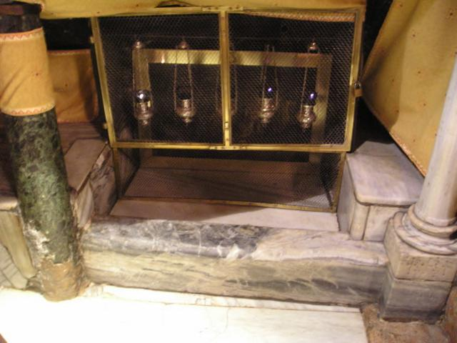 Bethlehem, Grotto of the Nativity - place of the manger